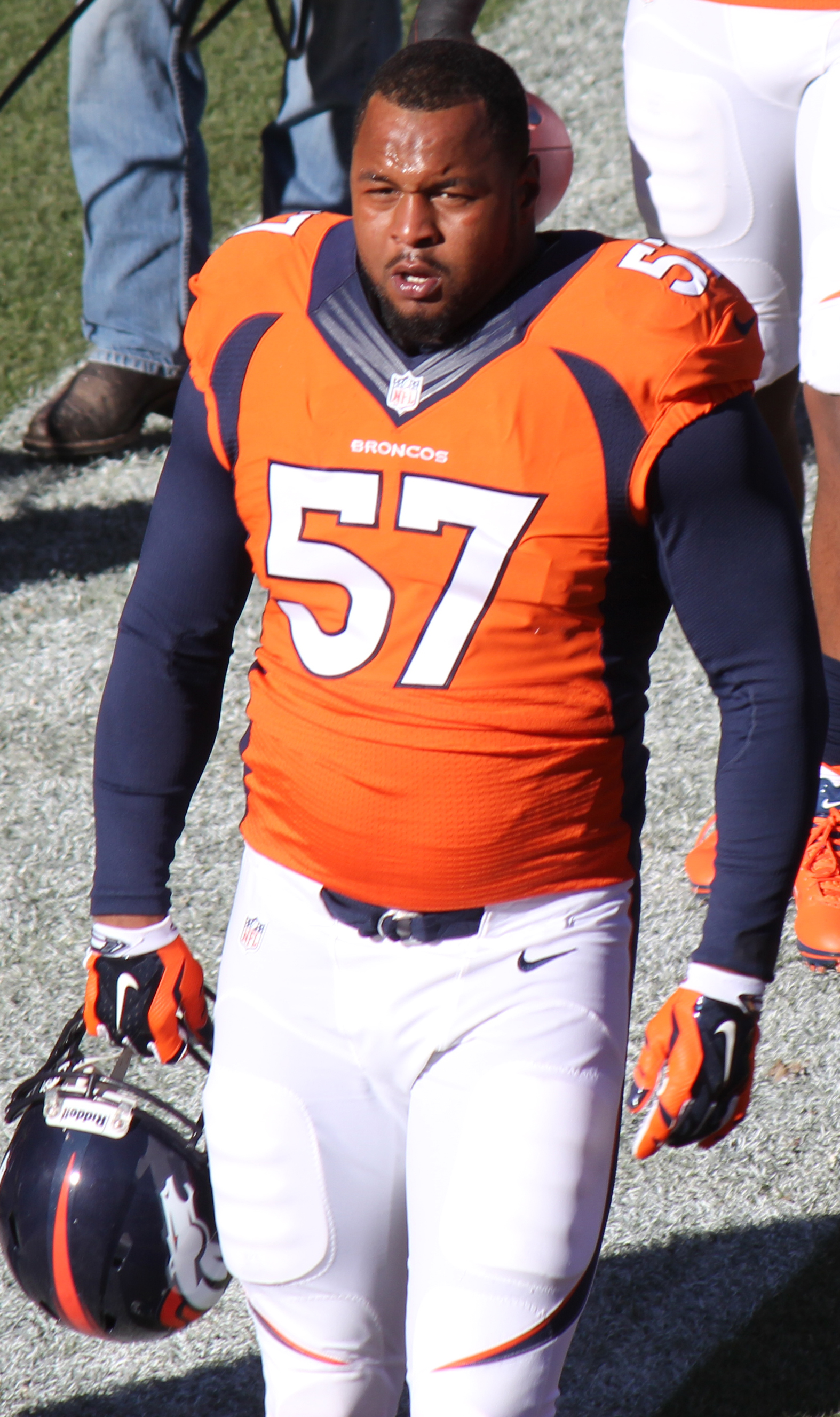 Jeremy Mincey, a player on the National Football League.